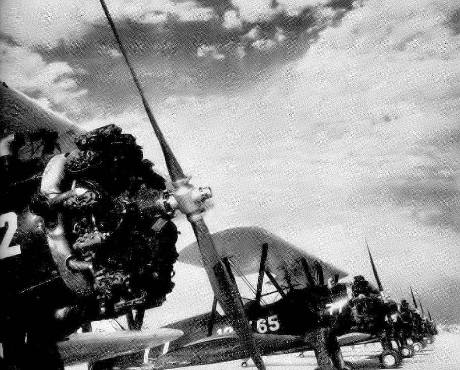 Thompson-Robbins Field - PT-17 Stearmans on Flight Line